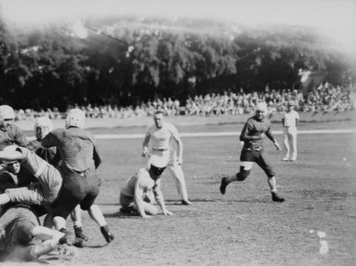 A game of Gridiron being played by American ex-servicemen in Brisbane in 1944 The image is from the State Library of Queensland and free of any copyright restrictions ( however there really isn't any licencing option in wikipedia for this, as it is from an Australian government agency.